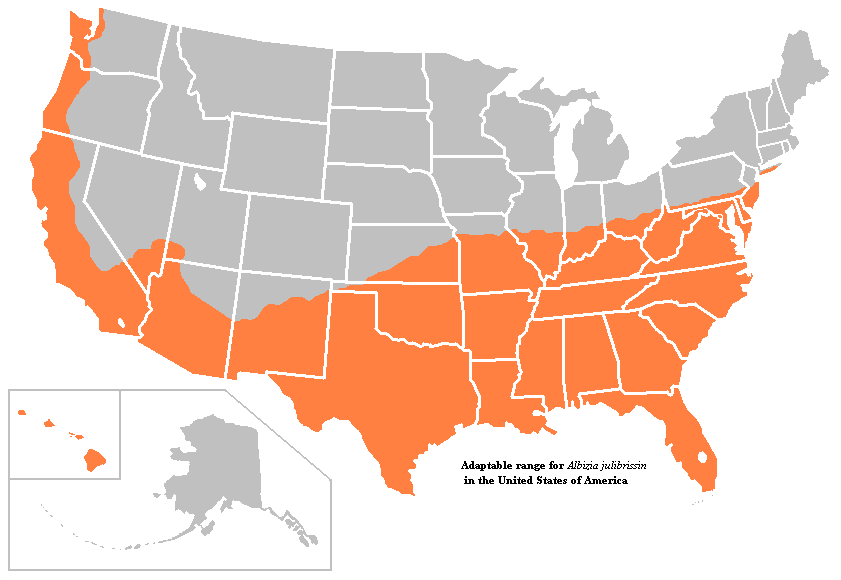 The range for the Silk Tree in the United States of America.